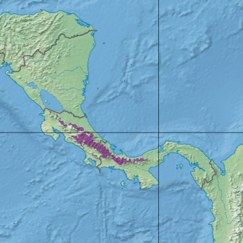 Ecoregion NT0167 - Talamancan montane forests (in purple)